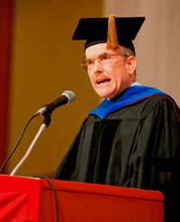 James Zumwalt, Charge d'Affaires, spoke at the Graduation Ceremony of the Temple University, Japan Campus in Minato Ward, Tōkyō Metropolis in June, 2009.